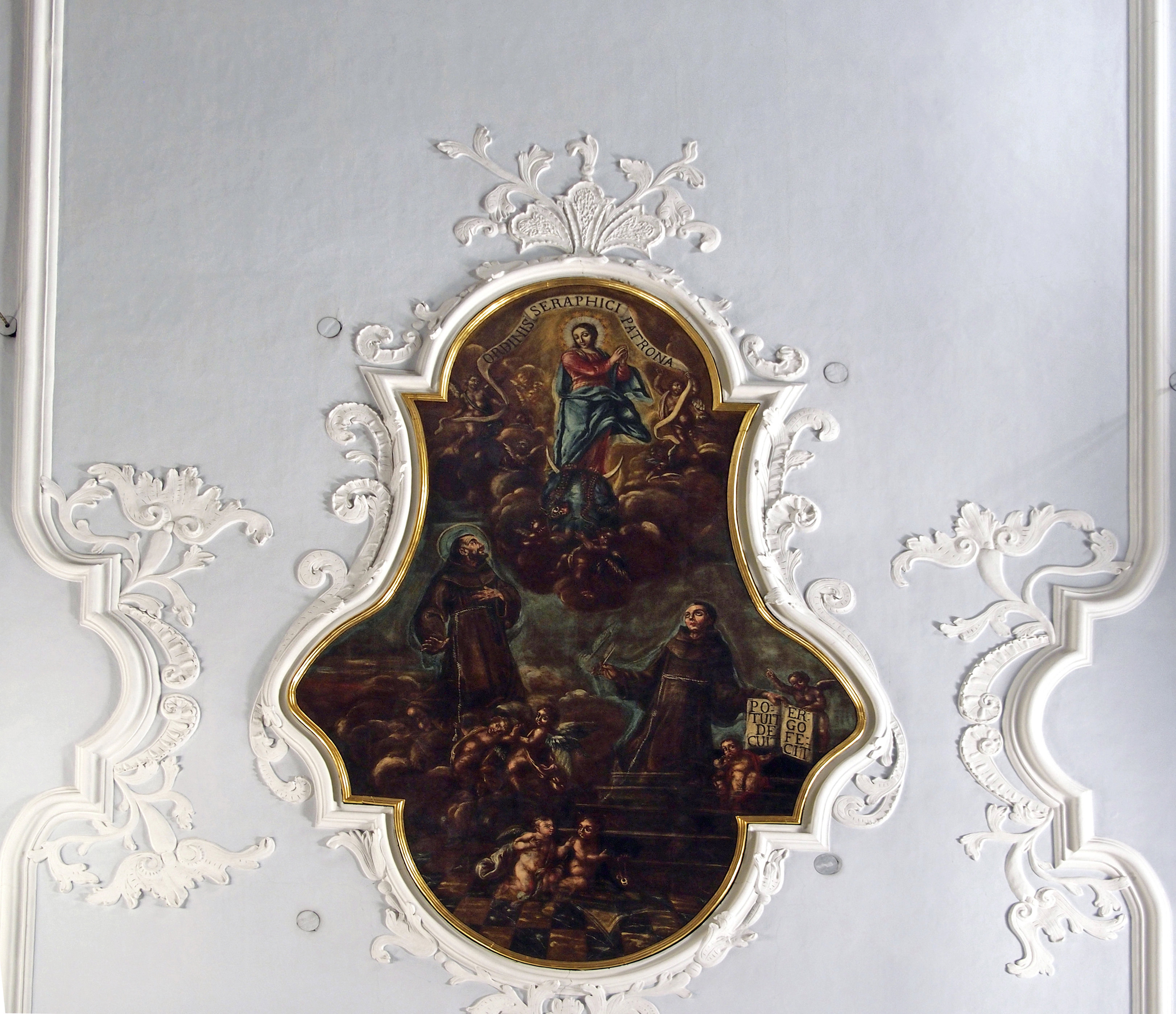 Franciscan Church and Monastery in Dubrovnik